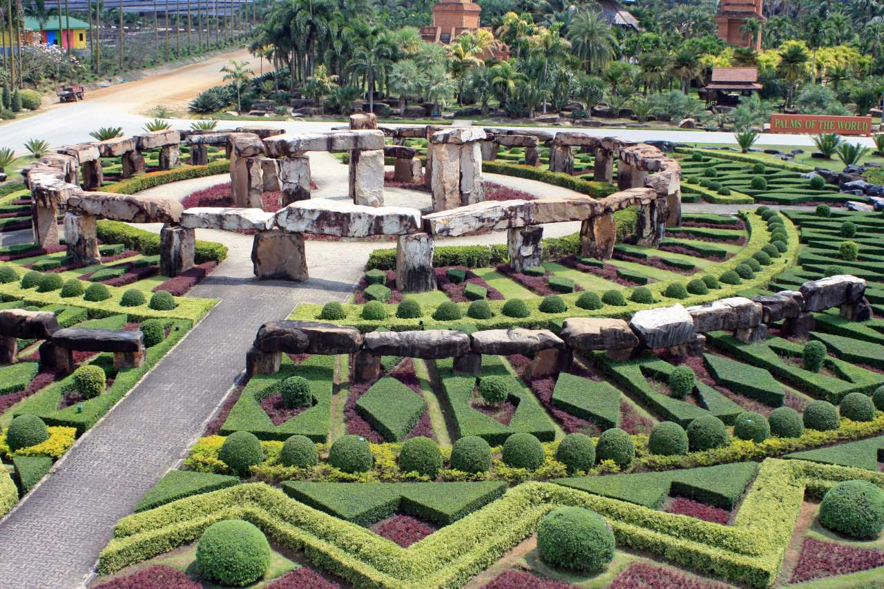 Nong Nooch botanical garden, Stonehenge garden, Thailand